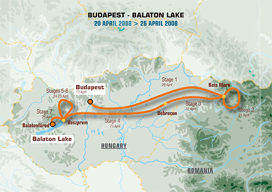 The route Central Europe Rally 2008